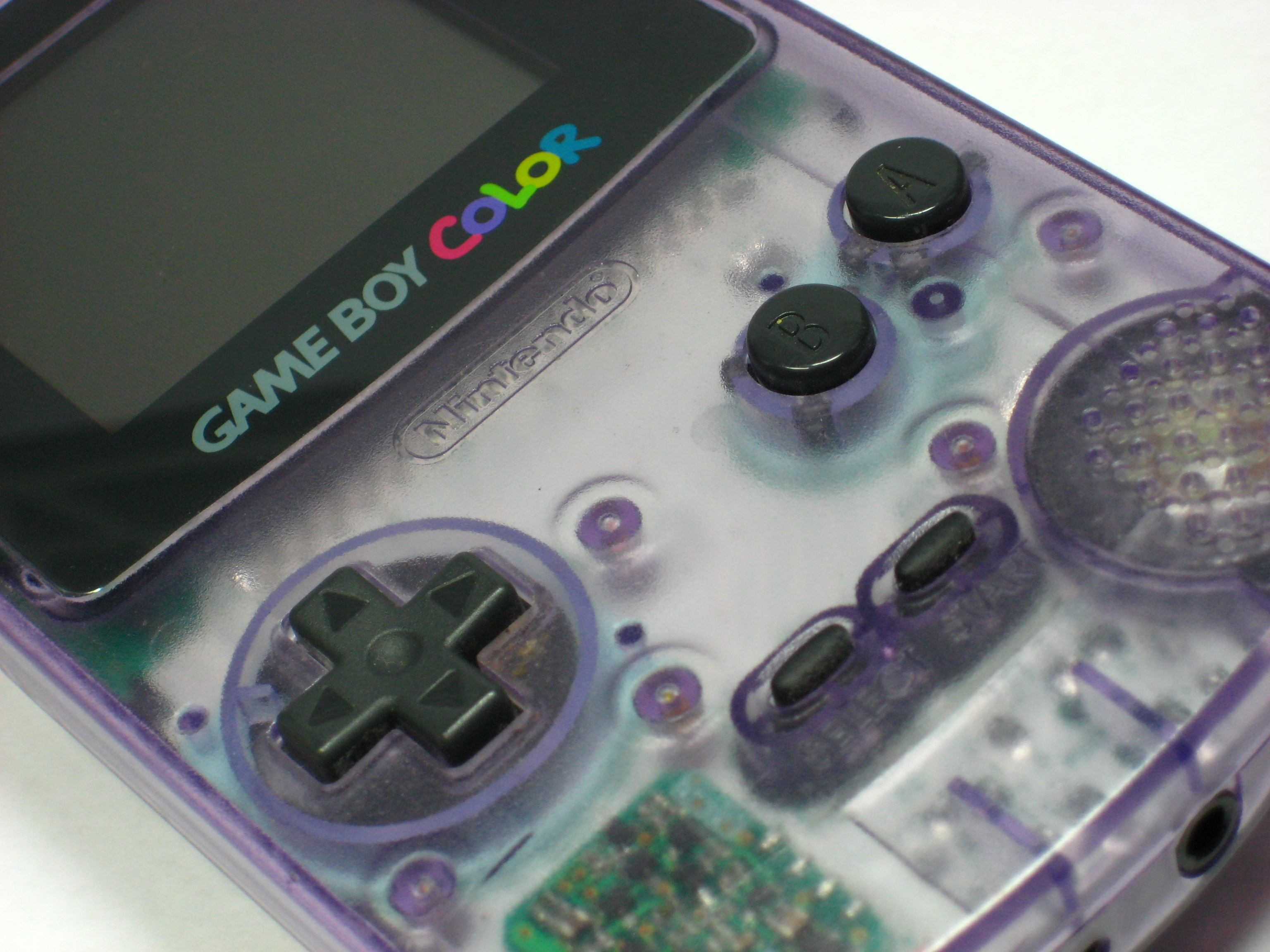 Nintendo Game Boy Color in the clear purple plastic casing.